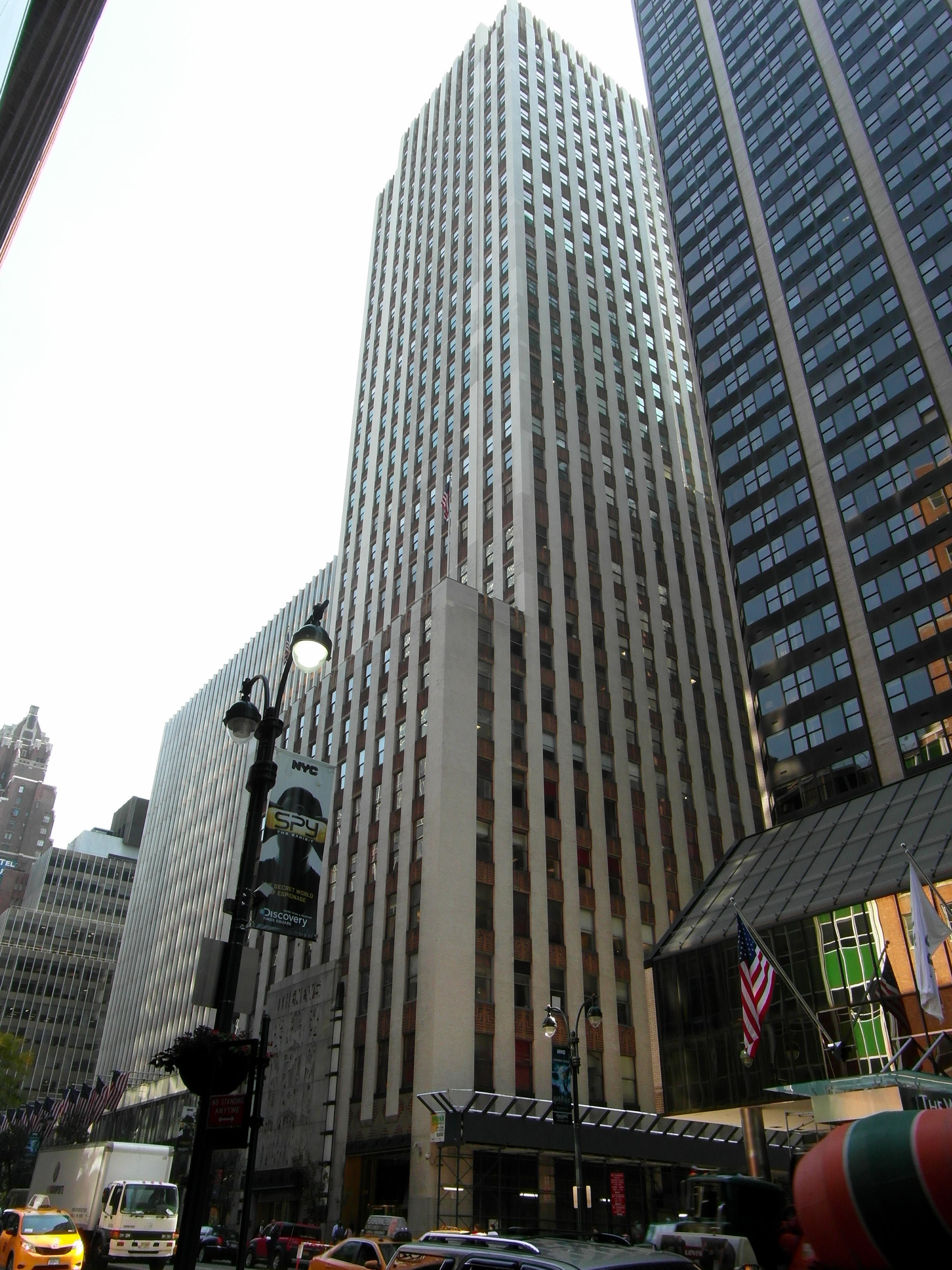 220 East 42nd Street, New York. Designed by Raymond Hood and completed in 1928 for the Daily News, then New York's most popular paper.